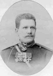 Major general of the Russian Empire fon Freyman, Eduard Rudolfovich.